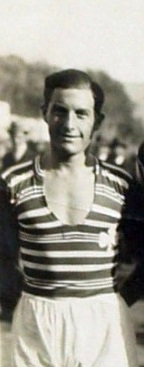 Angelos Messaris, player of Panathinaikos FC, 1929